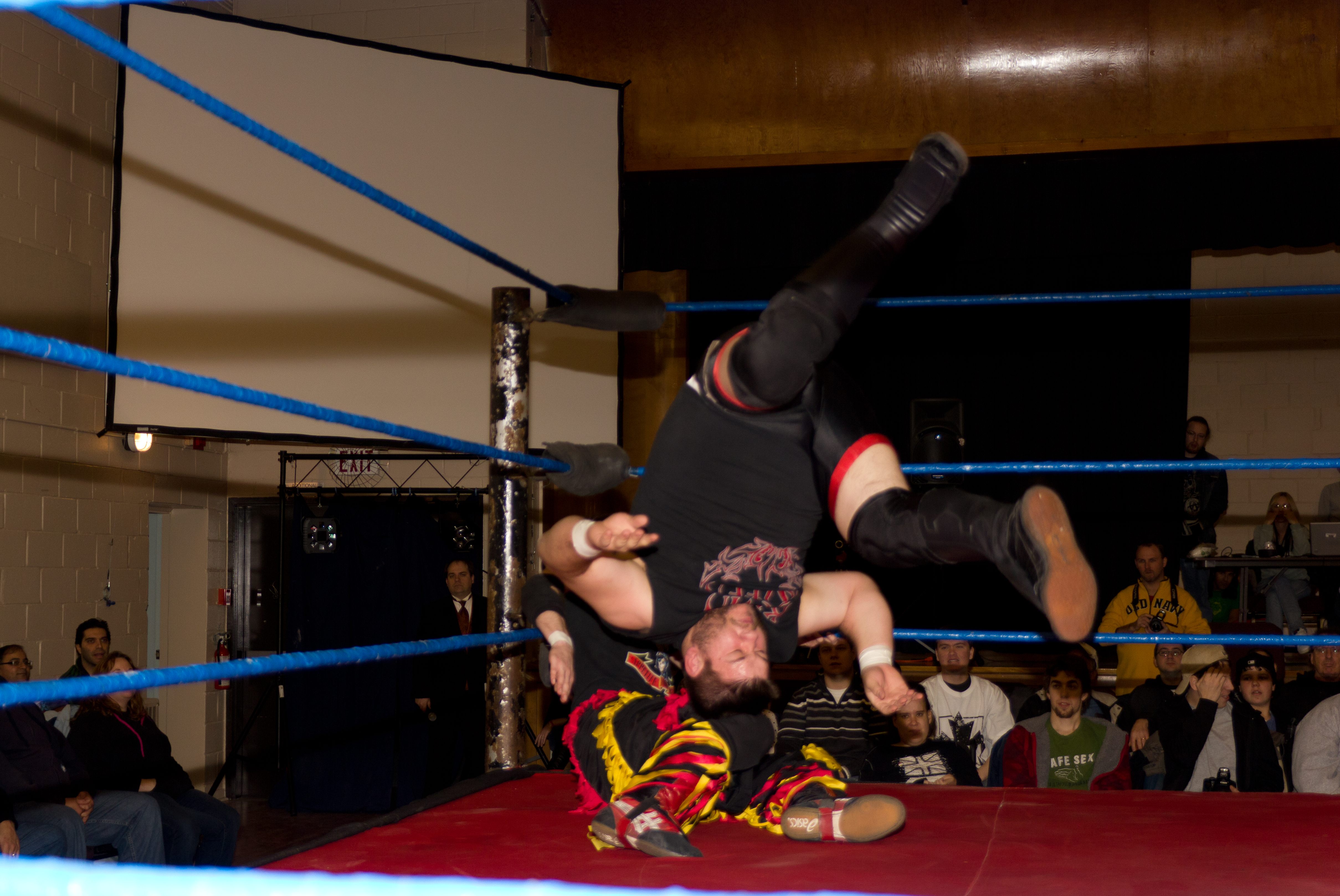 Kevin Steen performing a cannonball senton at GCW Season's Beatings 2011